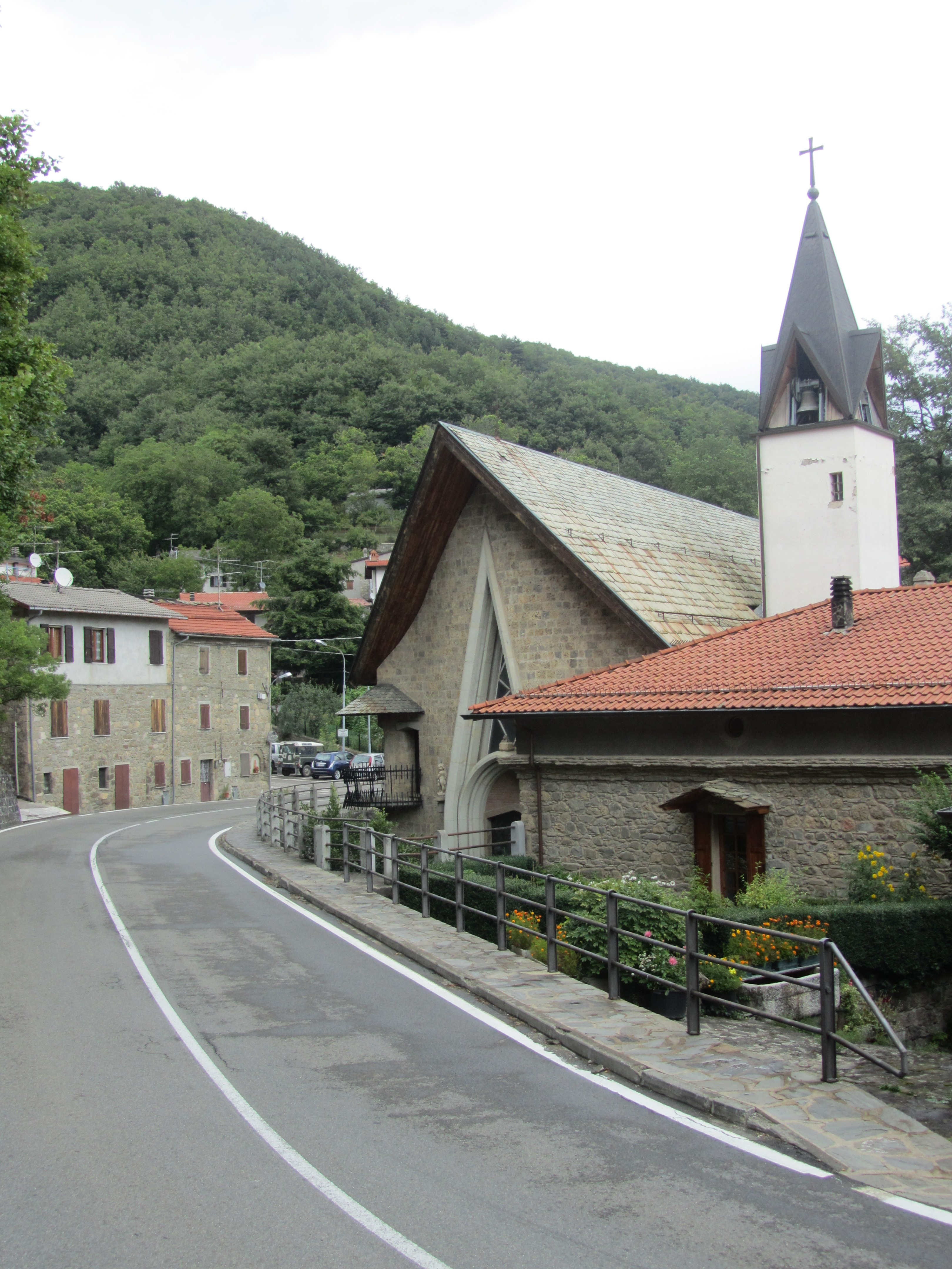 The church of Acquabona, provincia di Reggio Emilia.